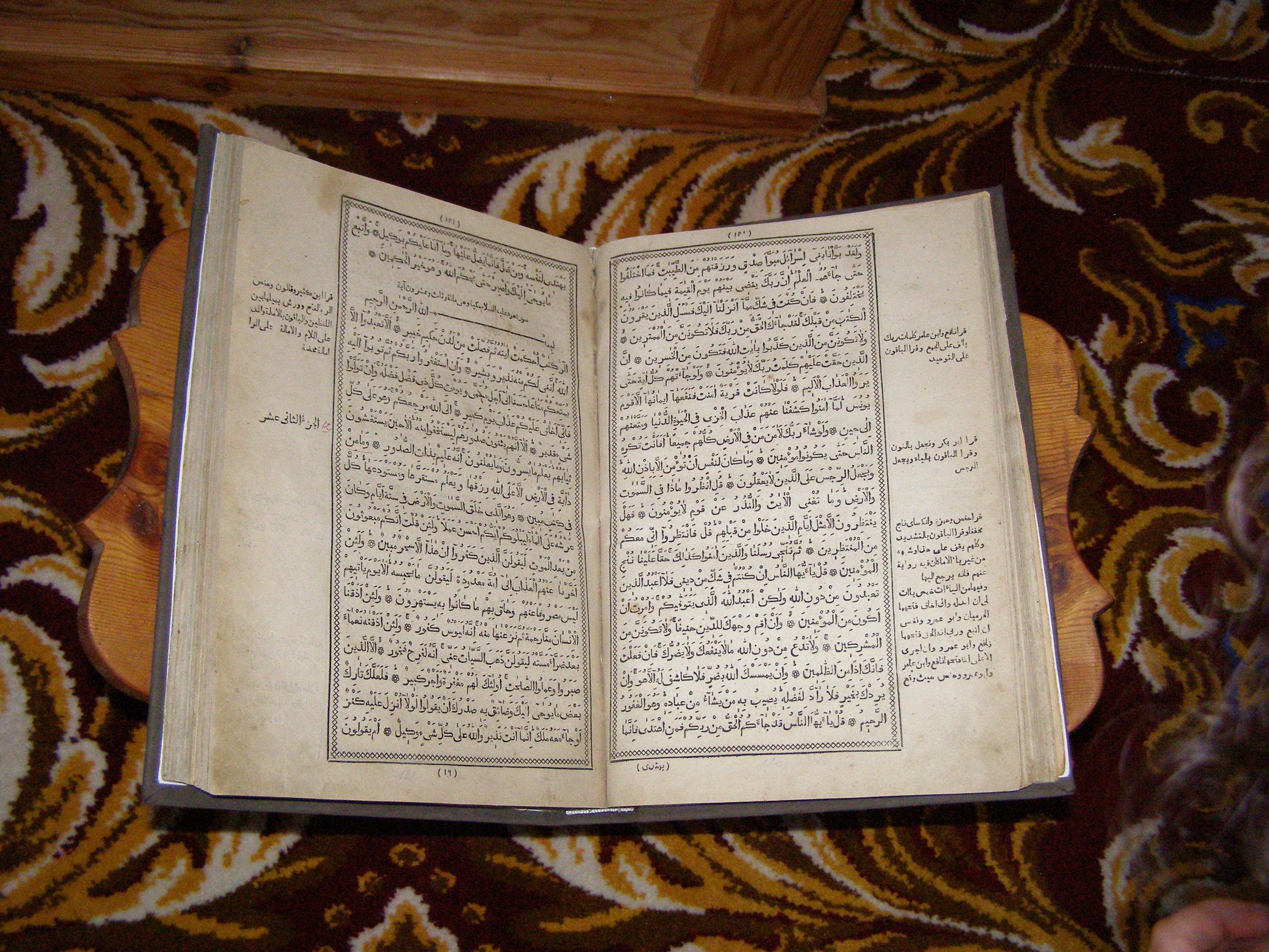 Bohoniki - Tatar mosque